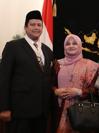 Photo with the Chairman of the Election Supervisory Board Muhammad Alhamid accompanied by his wife after the awarding of the honor of the Democracy Enforcement Star at the Presidential Palace, Thursday, August 13, 2015.